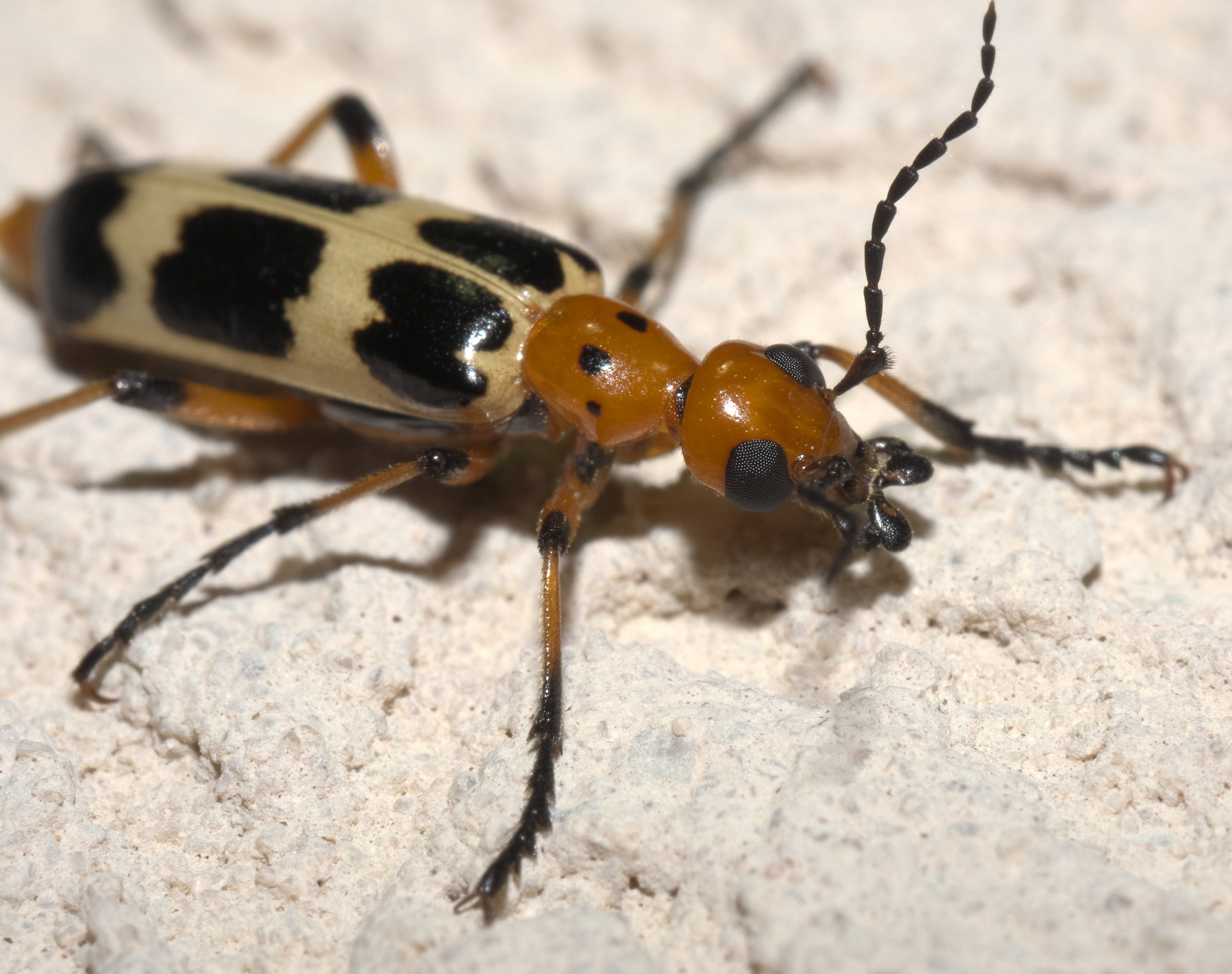 Pyrota palpalis, Charlie Brown Blister Beetle, Mylabrina Group, ID Confidence: 98